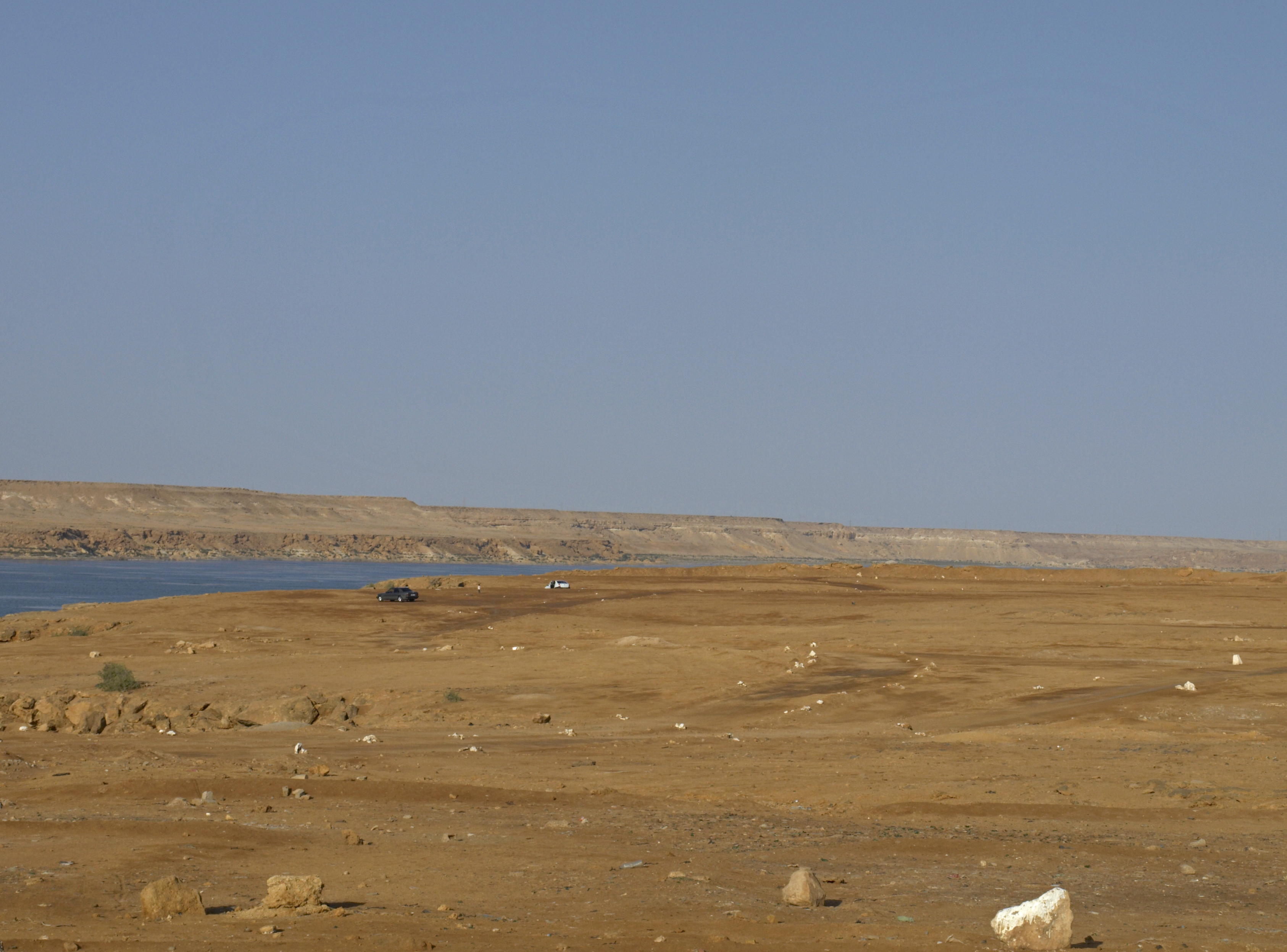 Artificial lake on Seguiet-el-Hamra east of El Ayun, view from the dam